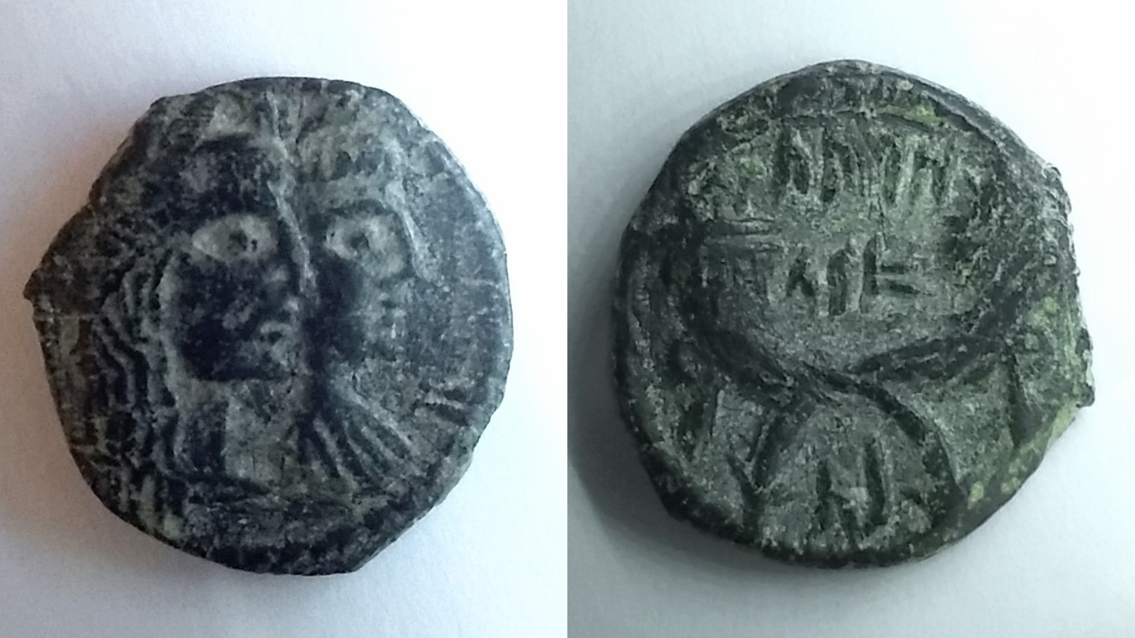 Nabataea, Aretas IV & Shaqilat 9BC-40AD, AE18, Prutah. Obverse: Jugate busts of Aretas IV ad Shaqilat; reverse: Crossed cornucopia; name of Aretas IV and Shaqilath in Nabataean script. Reference: Meshorer 114